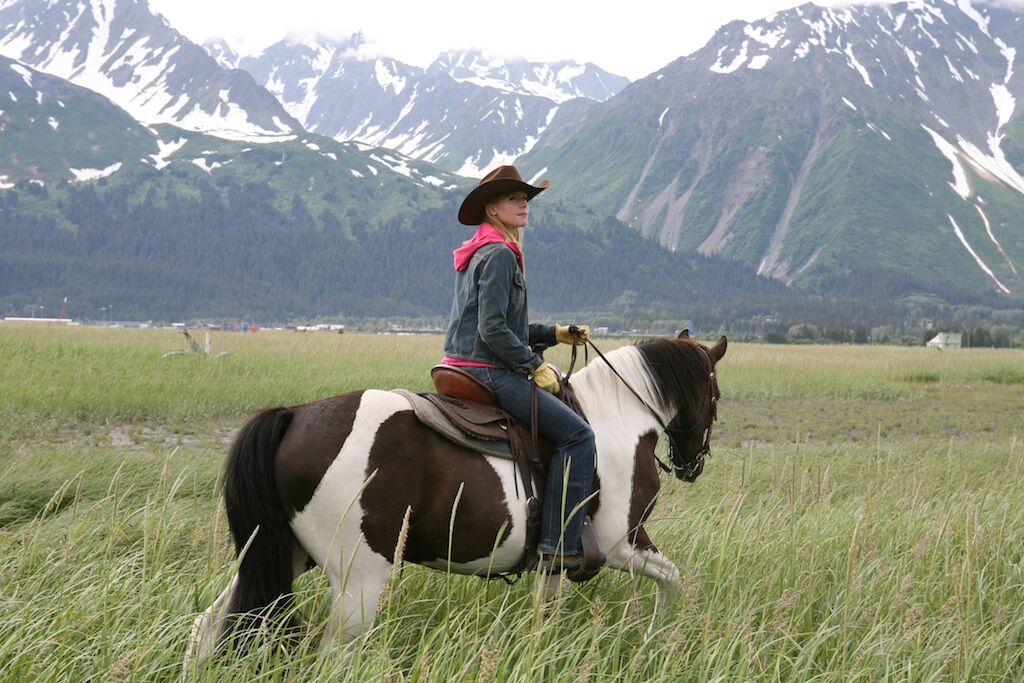 Darley Newman horseback riding in Seward, Alaska in 2010.